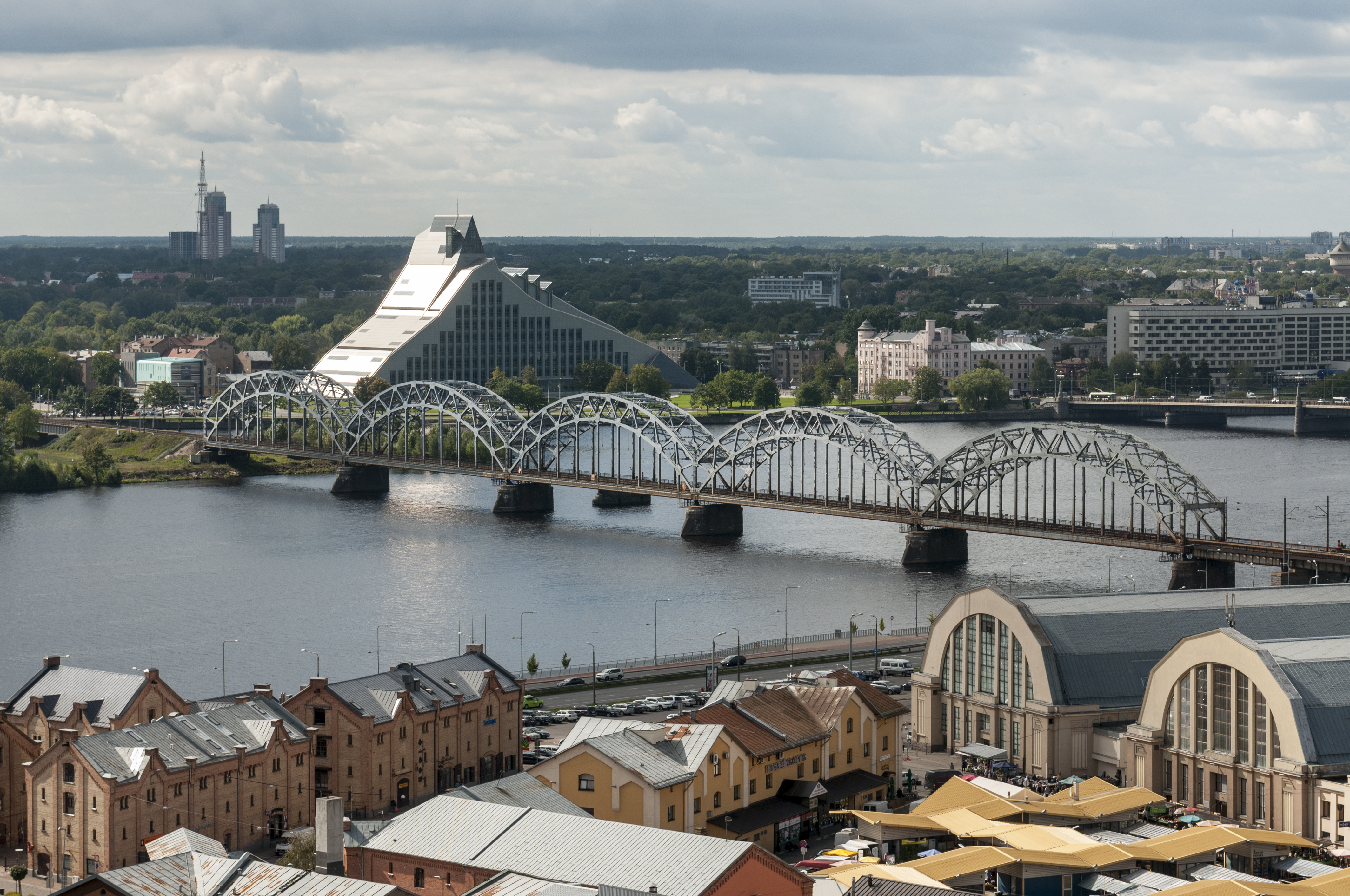 View from Latvian Academy of Sciences building